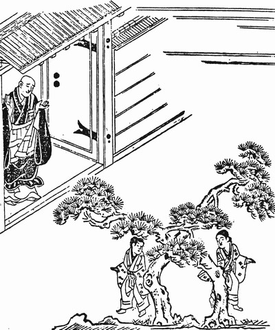 Niryū-matsu from from the Kokon Hyaku-monogatari Hyōban